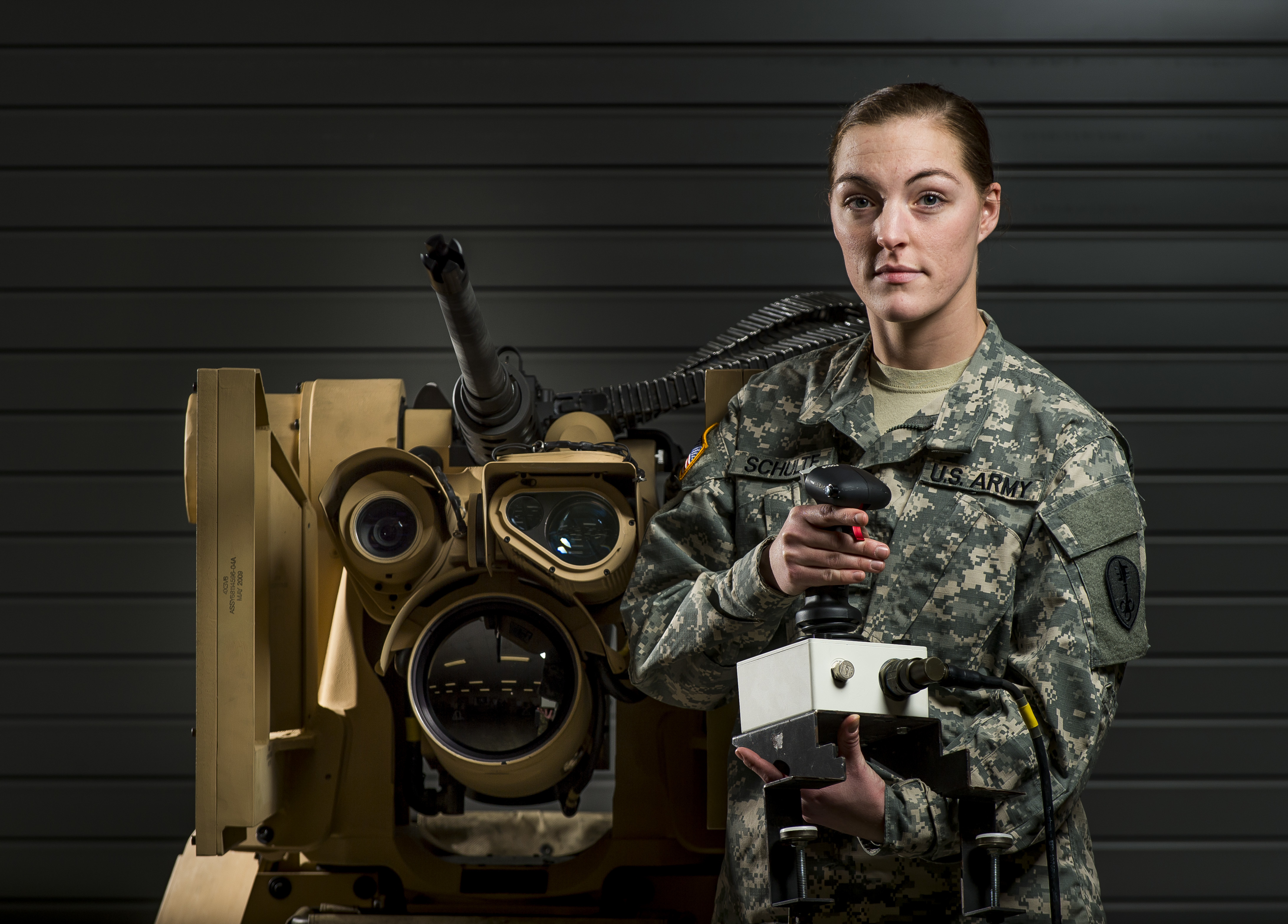 Spc. Rachel Schulte, a U.S. Army Reserve Soldier with the 354th Military Police Company, of St. Louis, Missouri, poses with a Common Remotely Operated Weapon Station (CROWS), at Fort Chaffee, Arkansas, Jan. 26. The CROWS is a remote-controlled system compatible with four major crew-serve weapons, and it was developed to keep gunners safe within the vehicle while engaging enemy targets. (U.S. Army Reserve photo by Master Sgt. Michel Sauret) Unit: 200th Military Police Command DVIDS Tags: Soldier; uniform; machine guns; rifles; .50-cal; squad automatic weapon; M2; M240B; U.S. Army Reserve; MK19; Soldiers; Army Reserve; rifle; weapons; M249; training; Military Police; TACOM; CROWS; 200th Military Police Command; automatic grenade launcher; common remotely operated weapon station; 200th MP; 200th MP CMD; M153; Tank and Automotive Command; crew-serve weapon